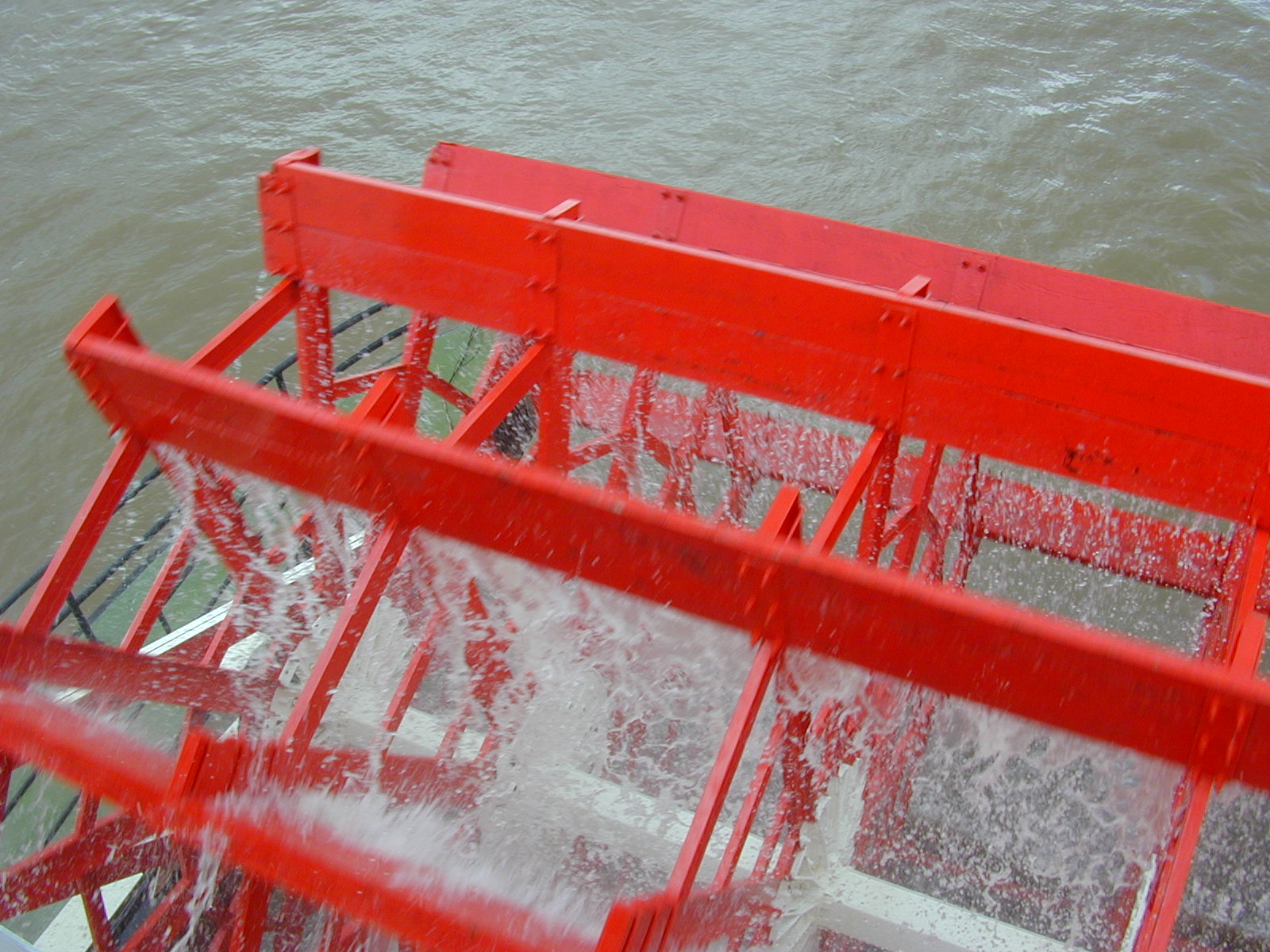 Sternwheel of riverboat Natchez Photo by Jan Kronsell, 2004.